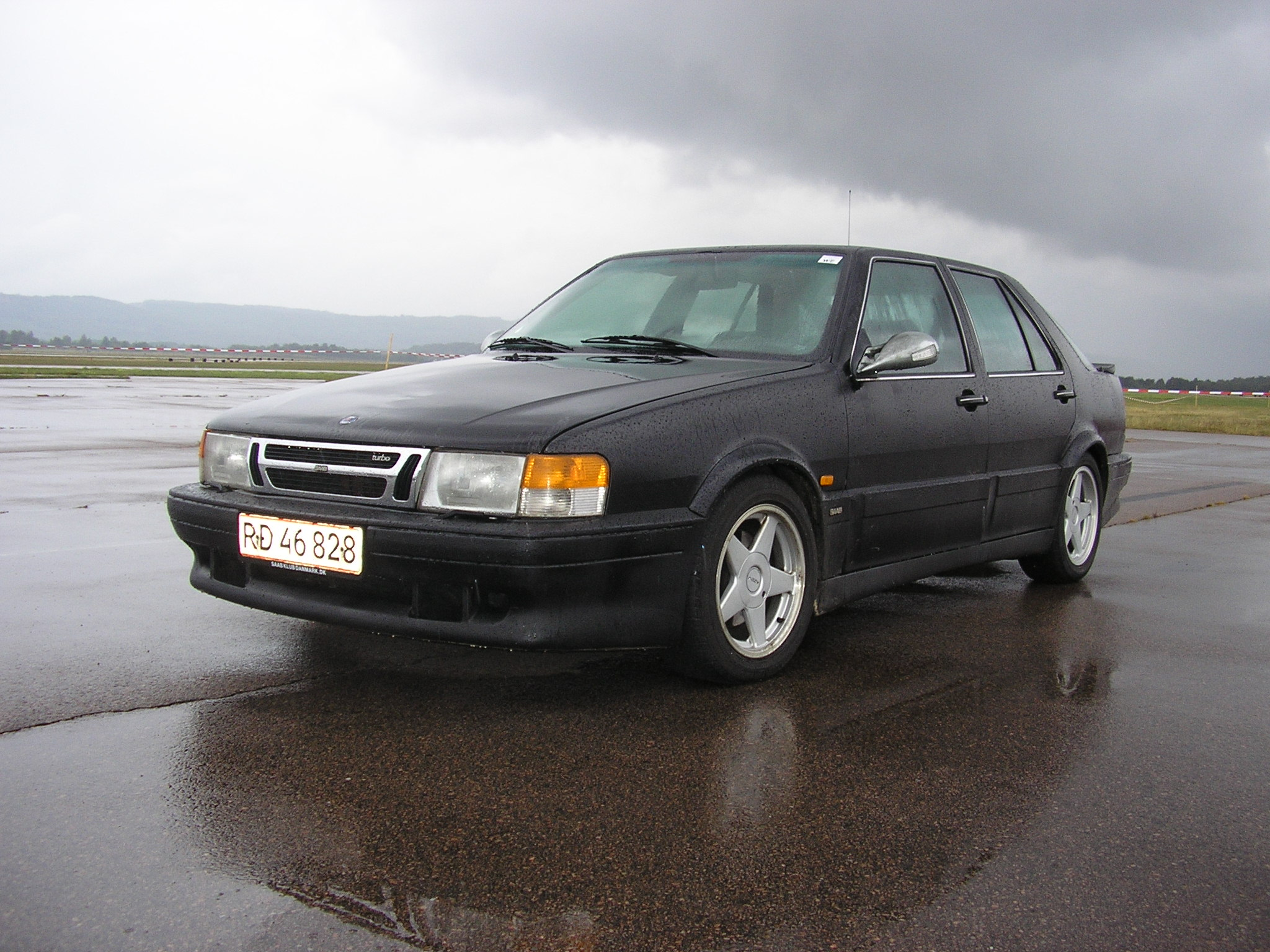 A SAAB 9000 with the classic front (1985-1990). Taken at the International SAAB Club Meeting 2006.